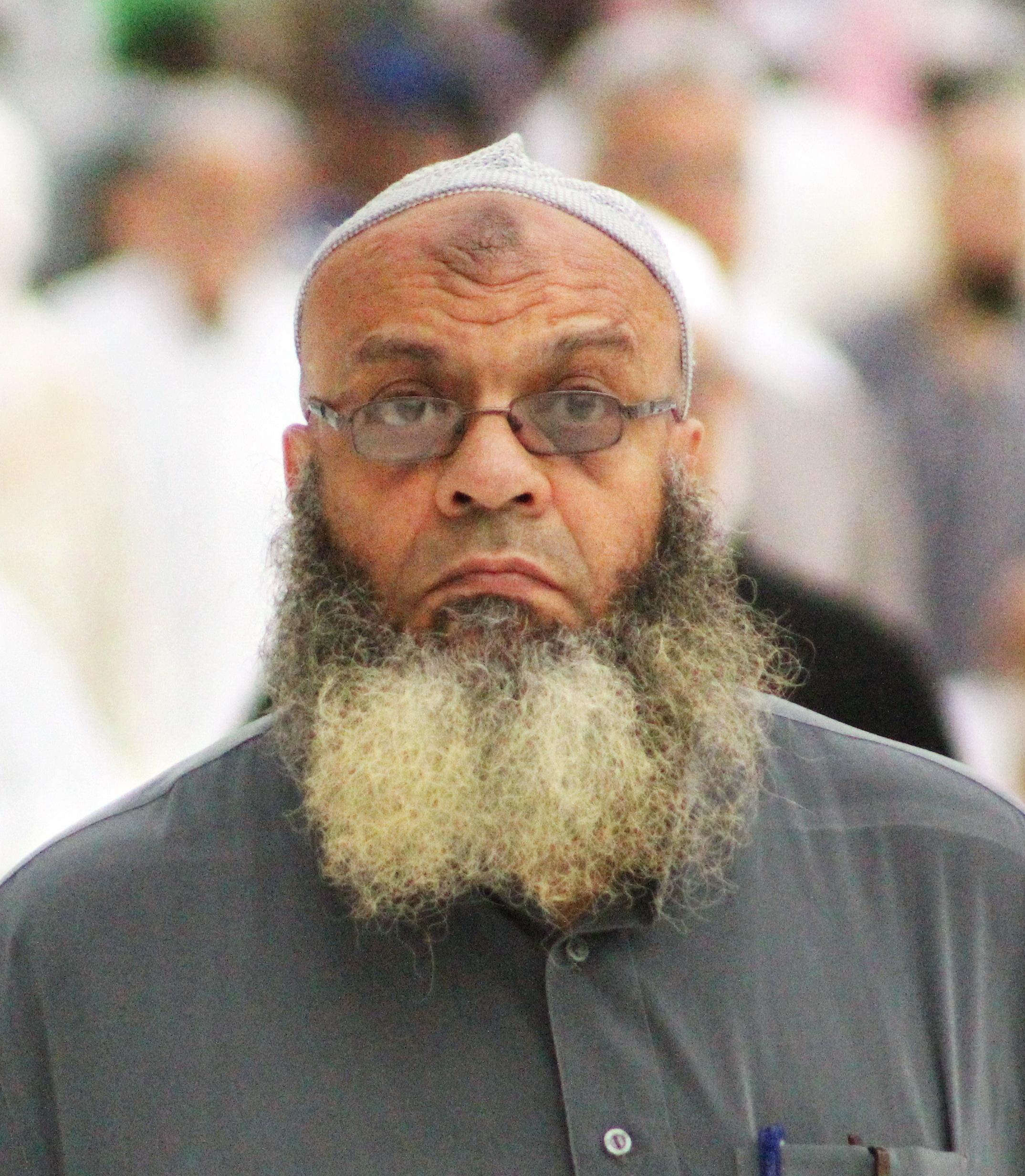 A pilgrim with a remarkable Zabiba (prayer bump) is seen at Masjid al-Haram after Fajr prayers.